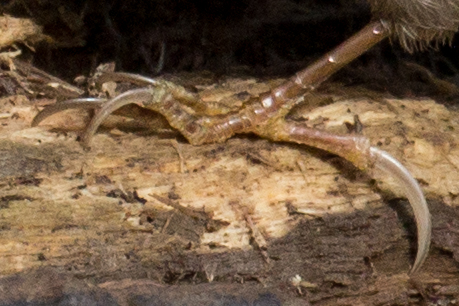 Eurasian treecreeper (Certhia familiaris), claw.